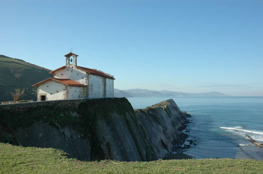 Chapel of San Telmo, Zumaia, Spain Jan Wesbuer